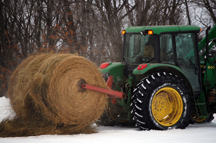 John Deere tractor 640 (?) with a bale handling implement – Chuck Massengill lays down hay from a roll on Monday, February 7, 2011. Spreading hay gives cattle a warmer place to rest in the snow.